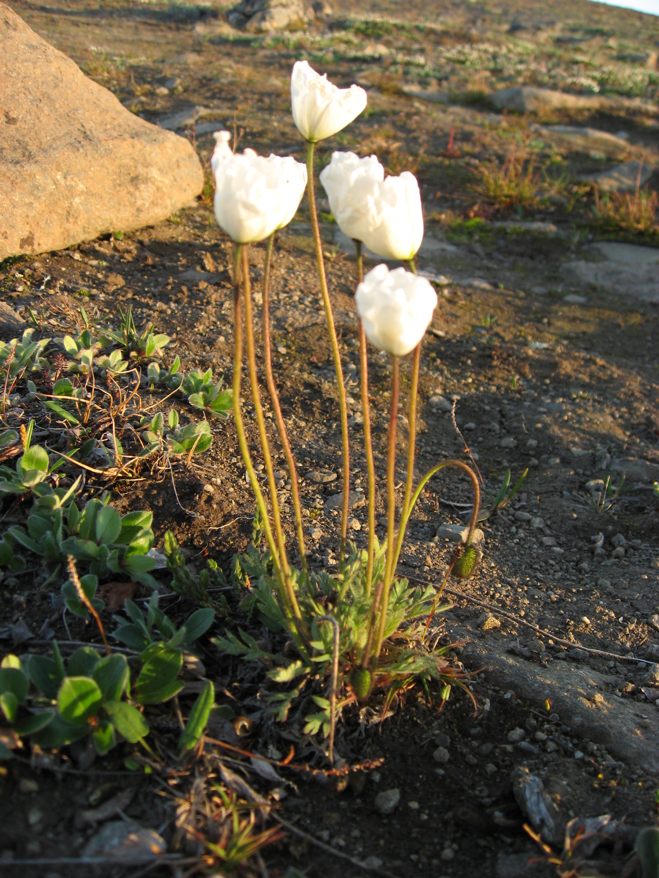 Papaver radicatum (Arctic Poppy) near Upernavik Kujalleq, Greenland.